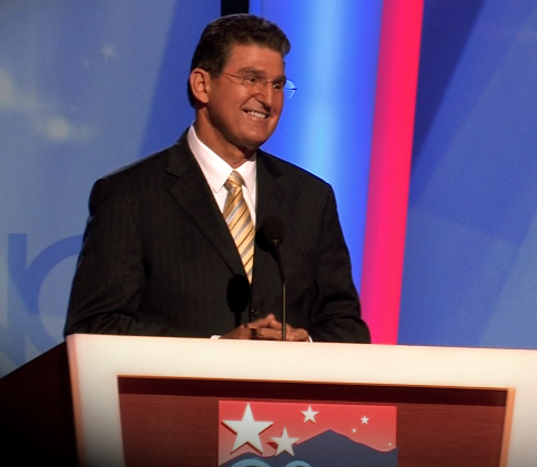 Gov. Joe Manchin addresses the crowd on day 2.